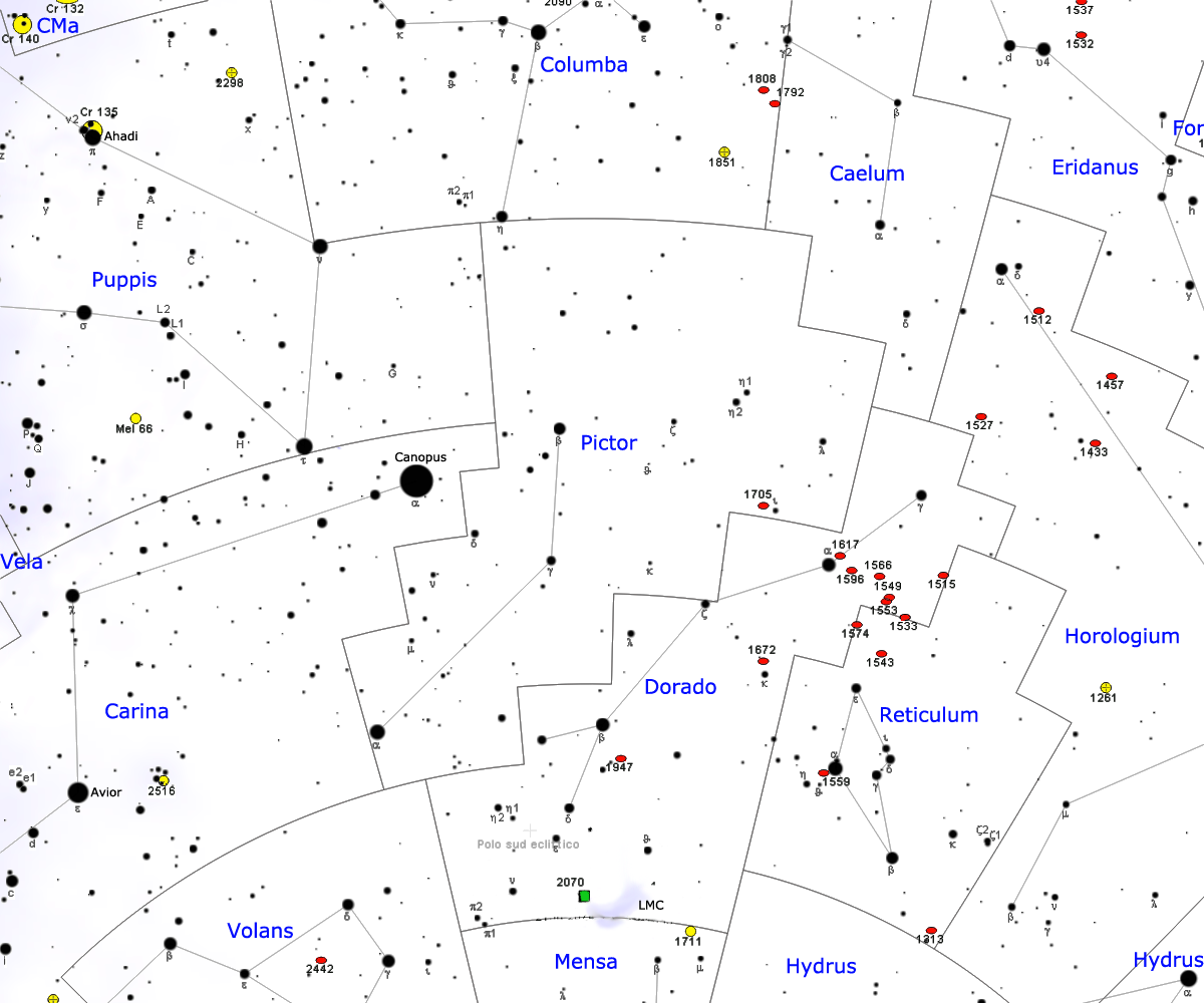 Map of Pictor